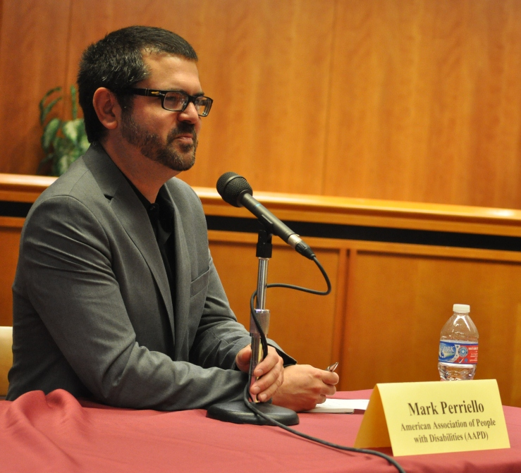 Panel 2 Moderator: Mark Perriello, President & CEO, American Association of People with Disabilities (AAPD) Digital Marketing Agency The purpose of the event was to facilitate a collaborative, cross-sector exchange of information about making social media tools and content accessible to people with disabilities, including information about authoring tools, client apps, and best practices. The event was held in the FCC's Commission Meeting Room and will included panels of industry, consumer, and government representatives.